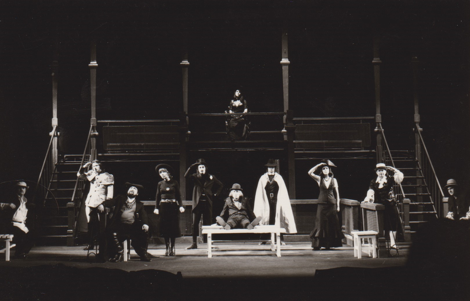 scanned period photograph of Aureliu Manea's production of Twelfth Night, Cluj National Theatre, 1975